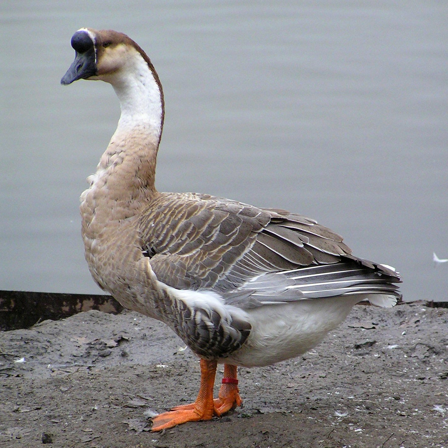 domesticated form of the swan gosse Anser cygnoides in german called "Höckergans" (lit. "bump goose")